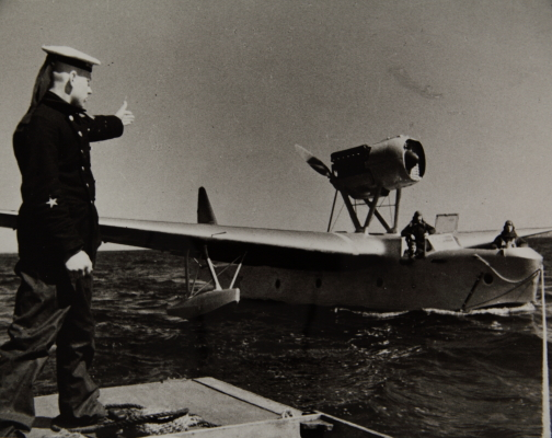 Catalog #: 00075624 Manufacturer: Beriev Designation: MBR-2 Notes: 1939 Beriev MBR-2